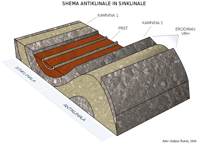 A scheme showing the syncline and anticline.